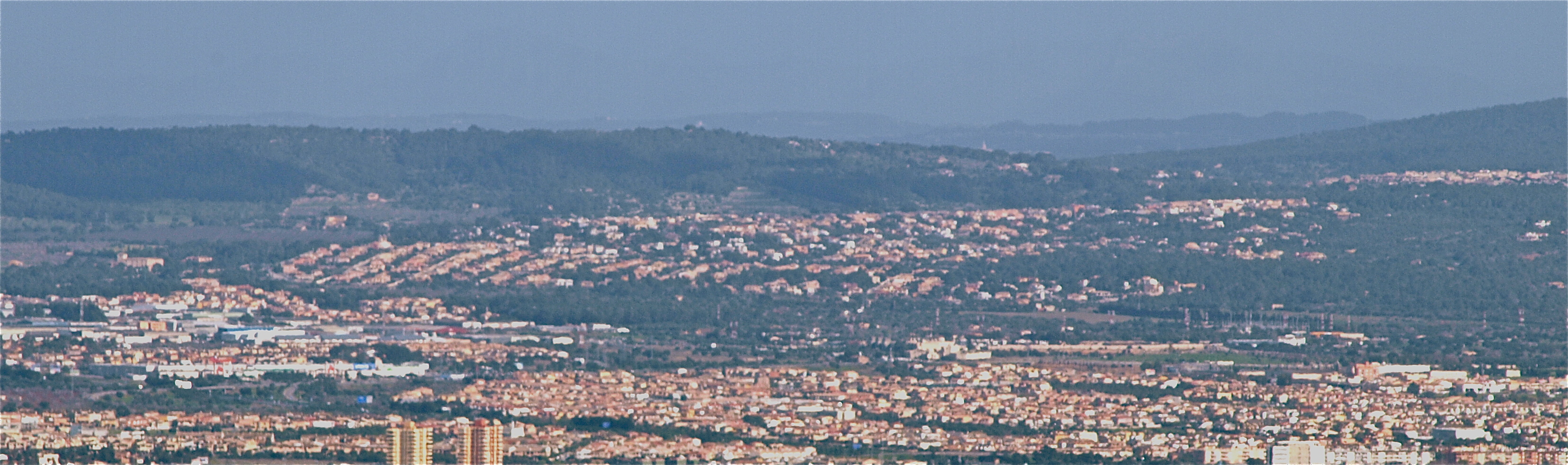 "Marratxining" proces or loss of rural landscape at Marratxí municipality Place Lloc/Place: Coll de Sa Creu, Palma